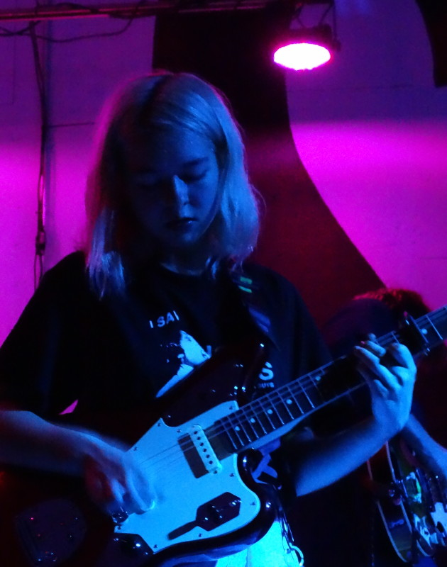 Lindsey Jordan of Snail Mail performing at the Asbury Park Brewery in Asbury Park, NJ on 06092018. Photo by LHCollins